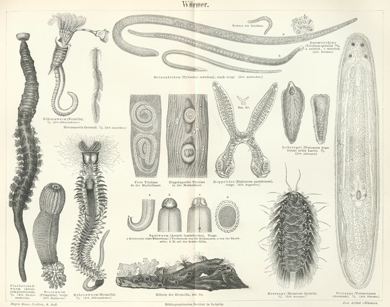 A page from Meyers Konversationslexikon with pictures of parasitic worms